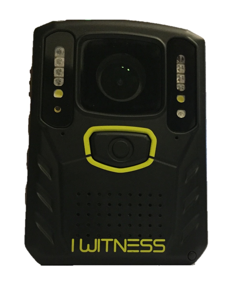 Body Worn Video camera Iwitness (type G4)